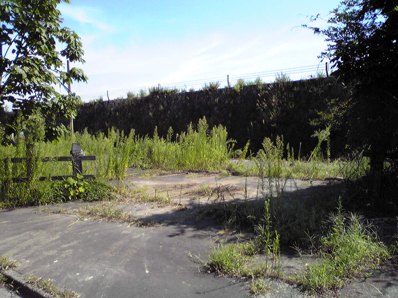 The remains of station building which was left in the remains of Ajikata Station, Niigata Kotsu Railway which became the abolished line on April 5, 1999. This station became the abandoned station on April 5, 1999.